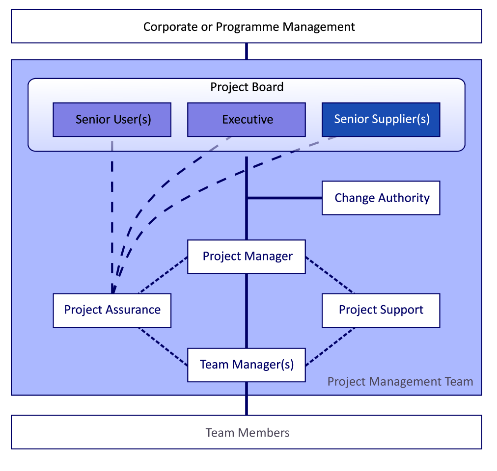 Illustration of the standard project organization, according to PRINCE2:2009